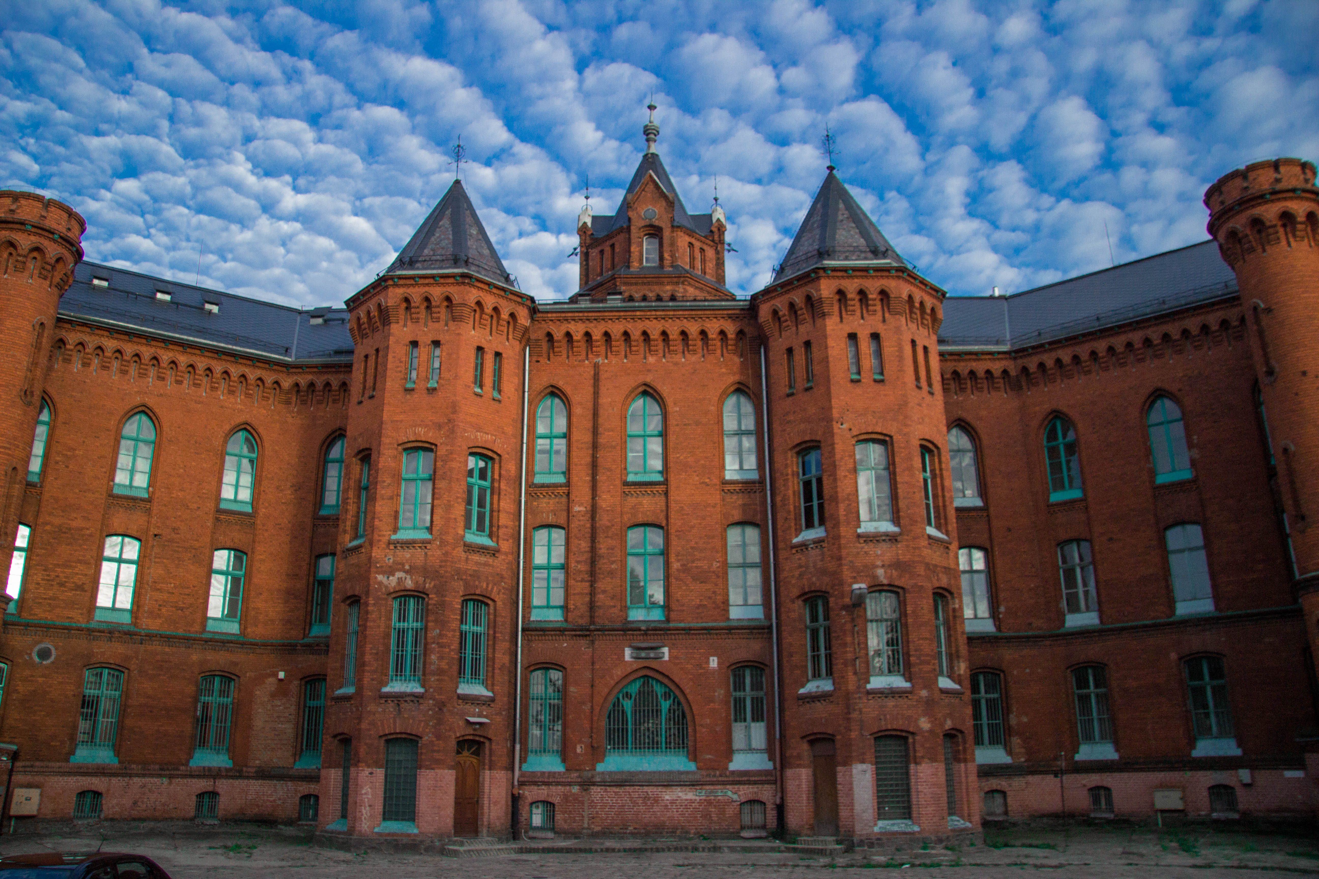 Neo-gothic complex of barracks built in the XIX century in Kwidzyn.